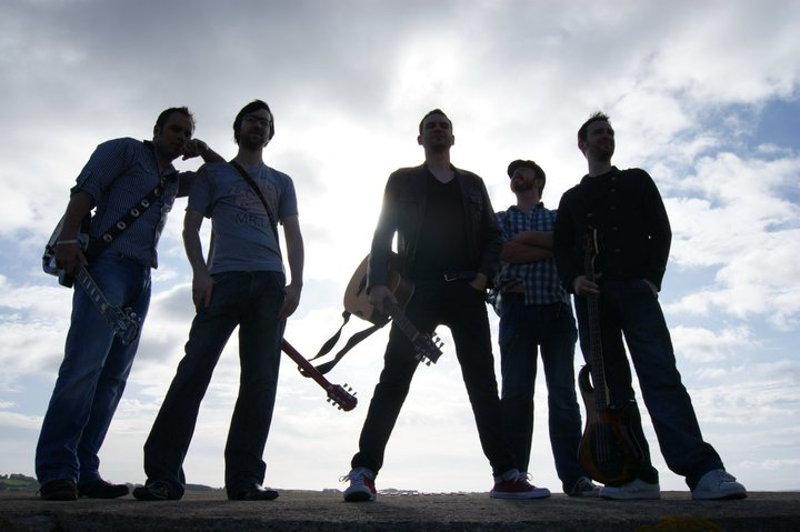 Band photo of Phoenix 23